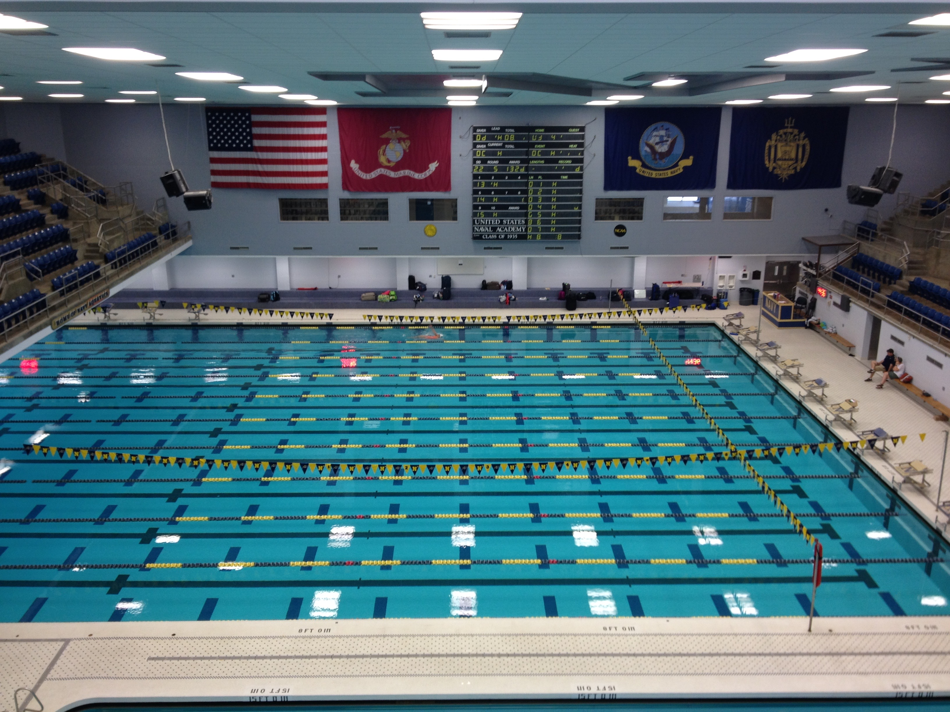 The Olympic size pool at the Lejune Hall in the United States Naval Academy, Maryland. (The lane configuration is set up as 50 meters.)